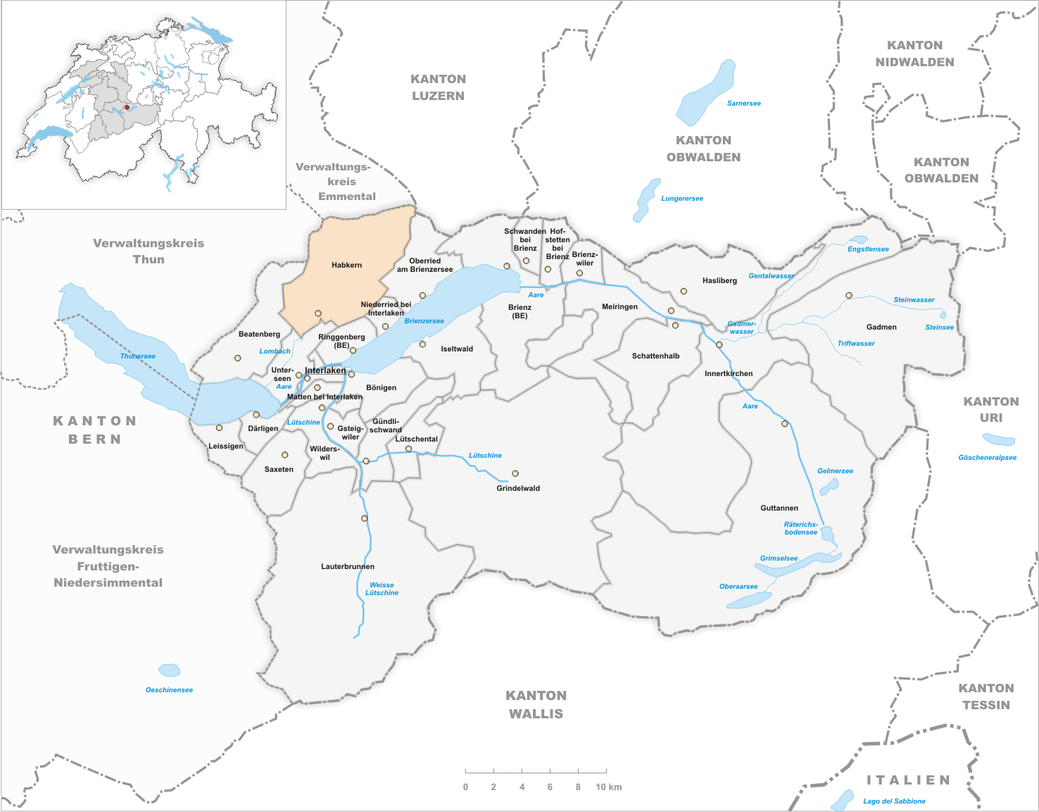 Municipality Habkern